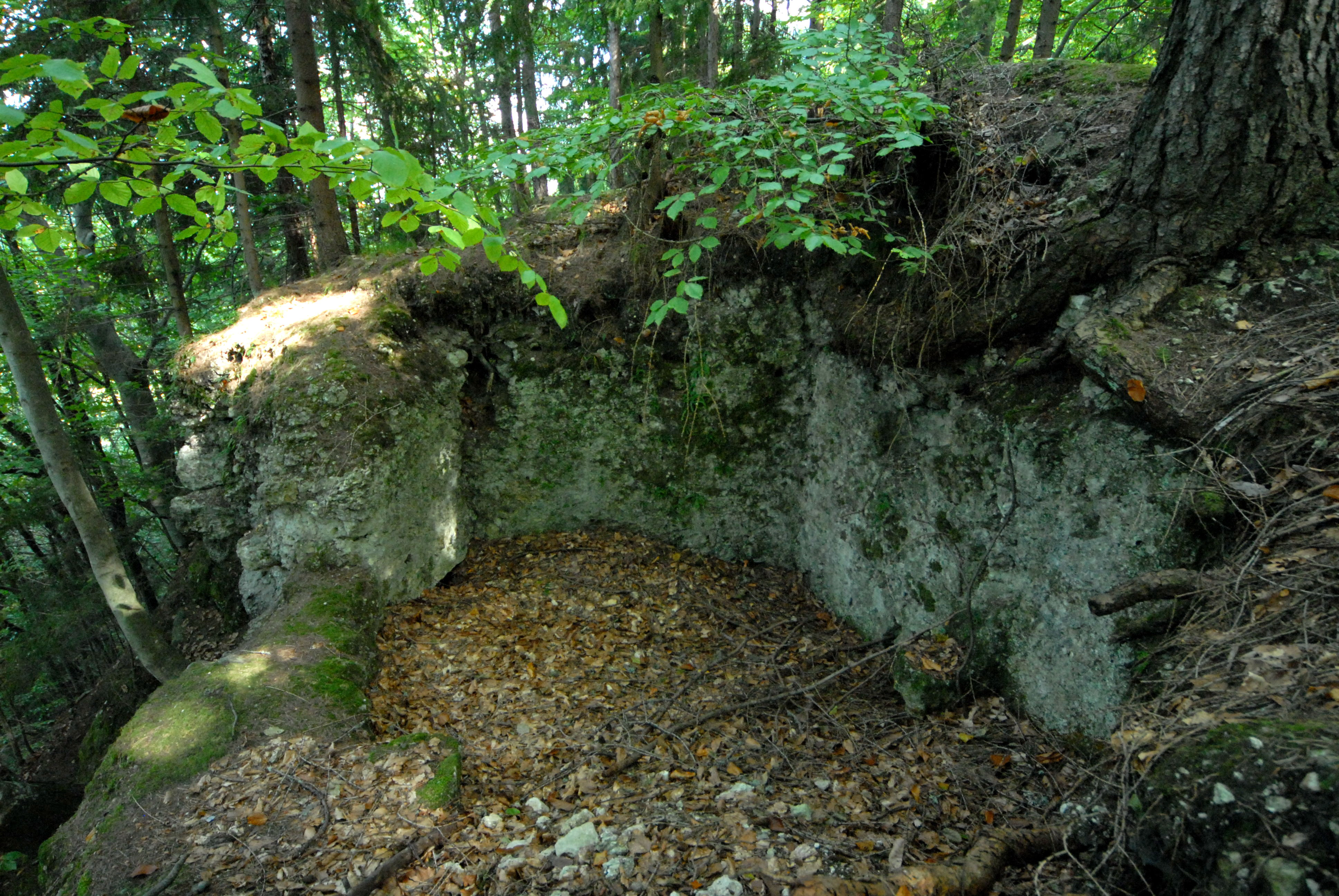 Castle ruins Greifenfels near Ebenthal, municipality Ebenthal in Kärnten, district Klagenfurt Land, Carinthia / Austria / EU